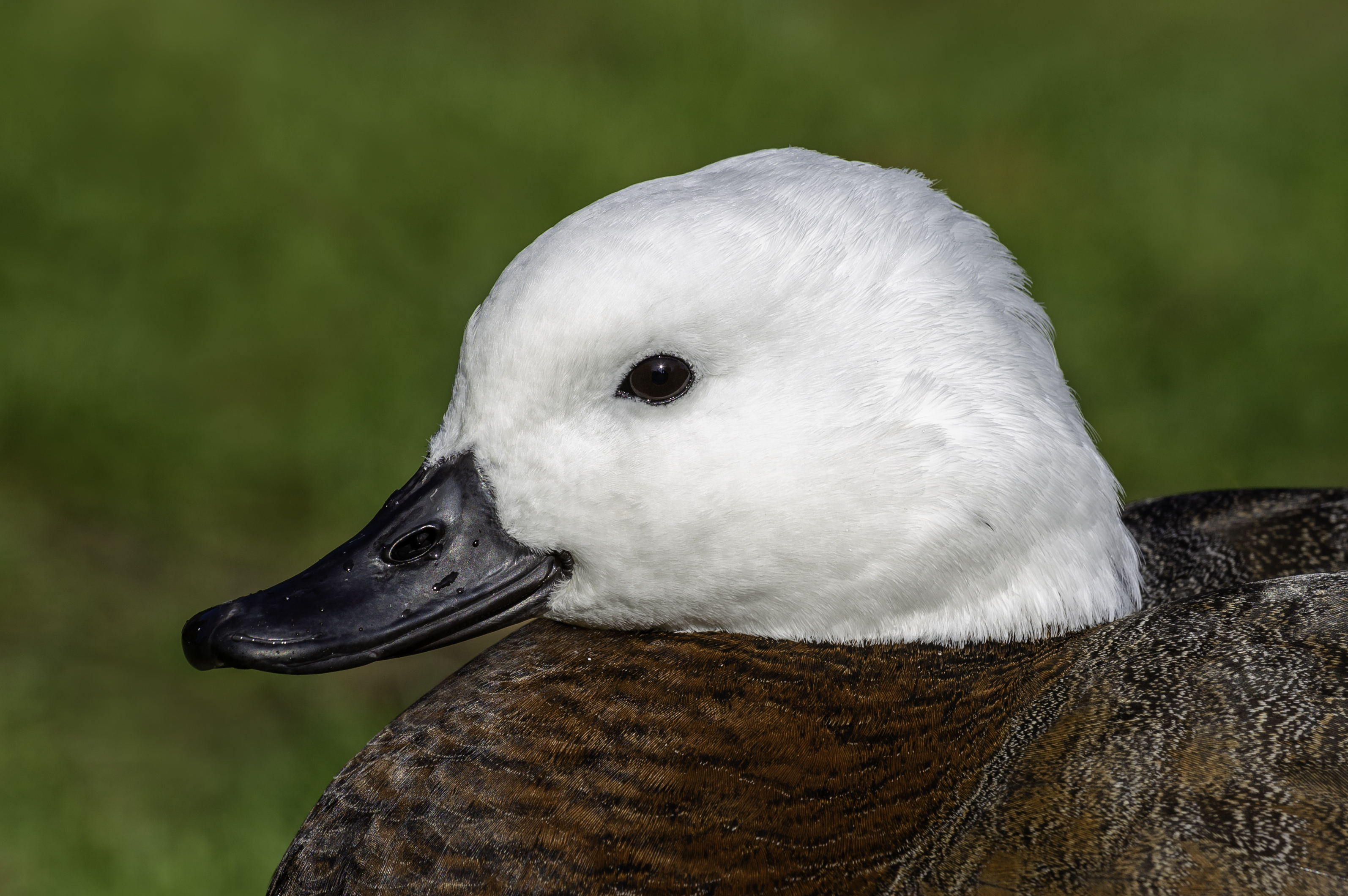 Paradise shelduck (Tadorna variegata, female) portrait. Christchurch Botanic Gardens, New Zealand